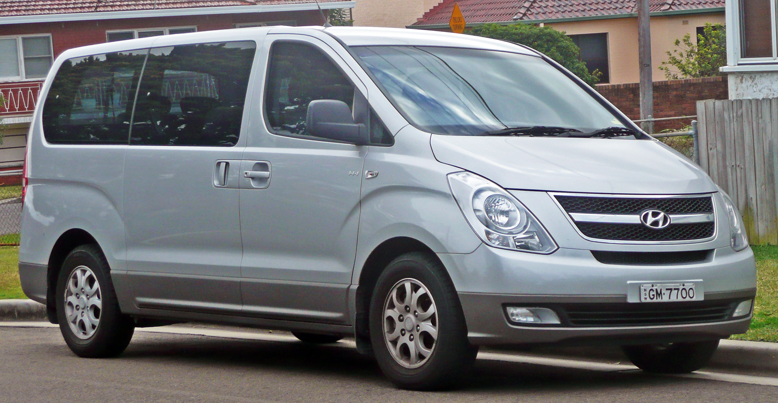 2008–2010 Hyundai iMax (TQ-W) van. Photographed in Cronulla, New South Wales, Australia.